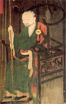 portrait of Chinul